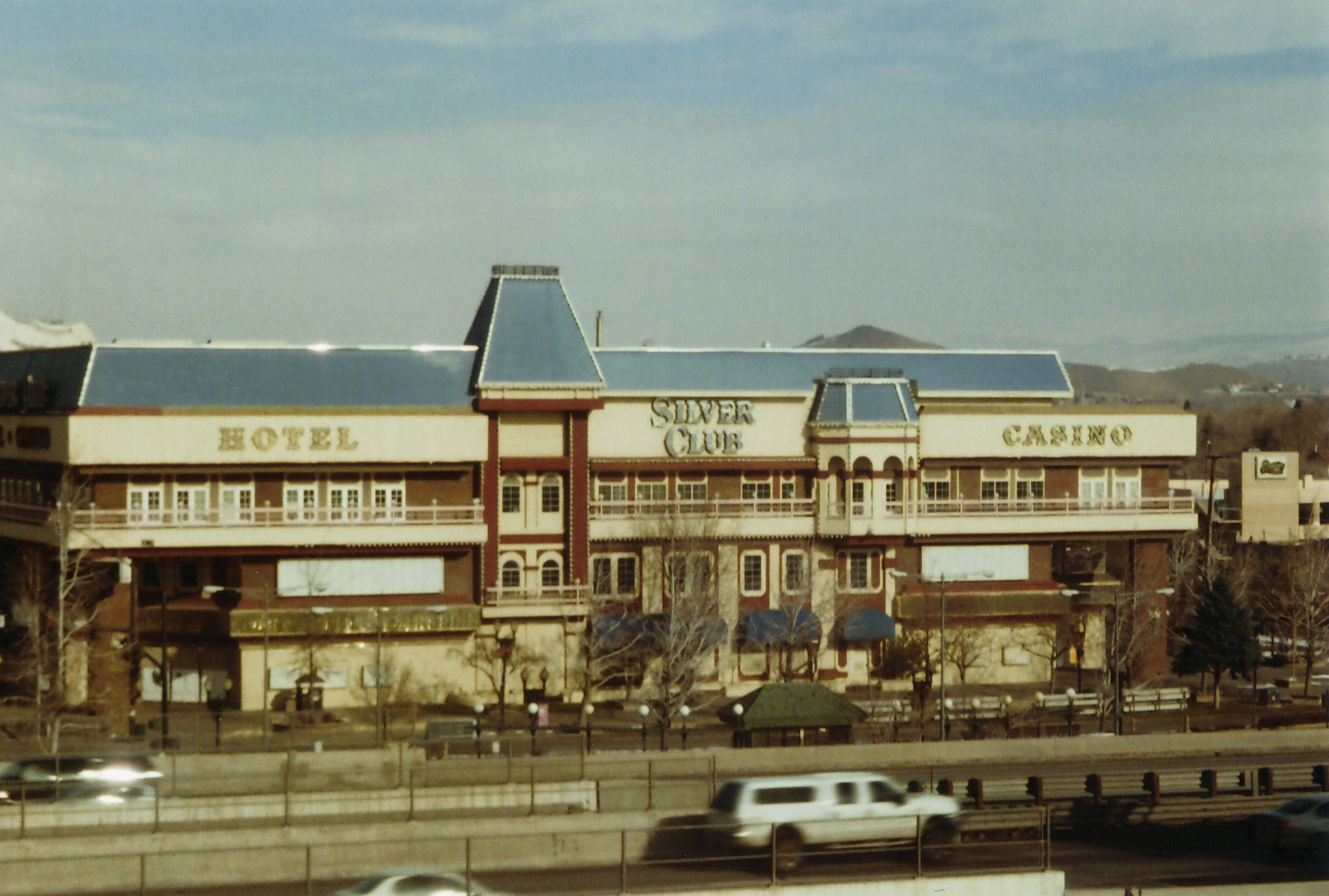 The closed Silver Club hotel-casino in Sparks, Nevada. Photographed from a hotel tower at John Ascuaga's Nugget. Interstate 80 appears in the foreground.